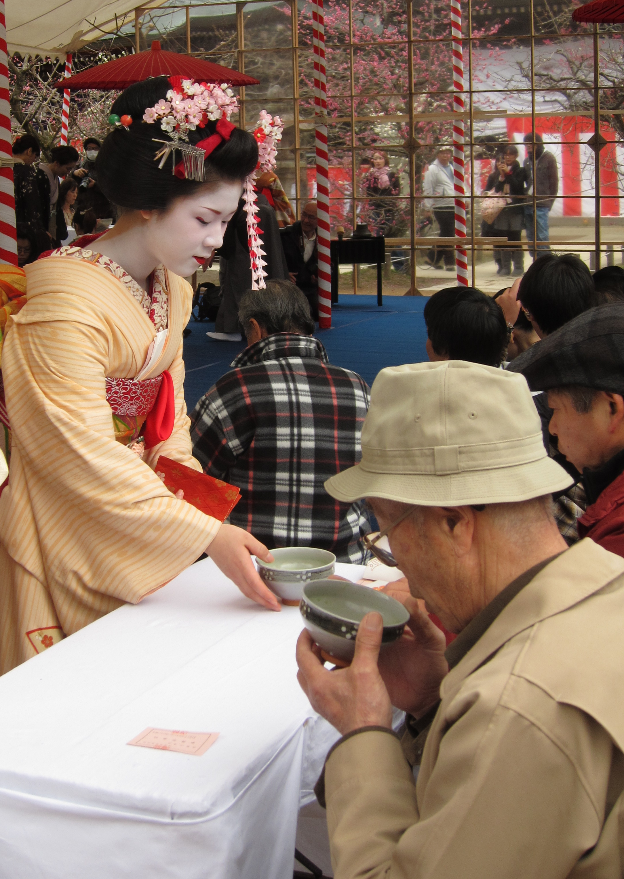 Maiko serving tea to an elderly man in hat and glasses at Kitano Tenman-gū, during plum blossom festival on 2011-02-25.